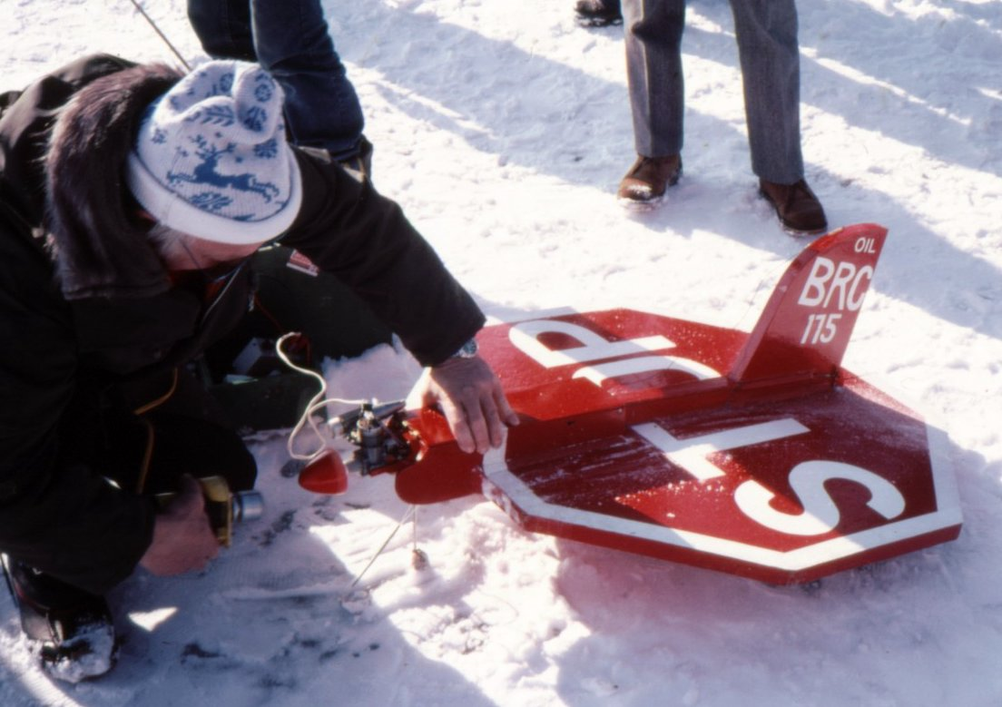 Even a stop sign can fly provided it has suitable propulsion.